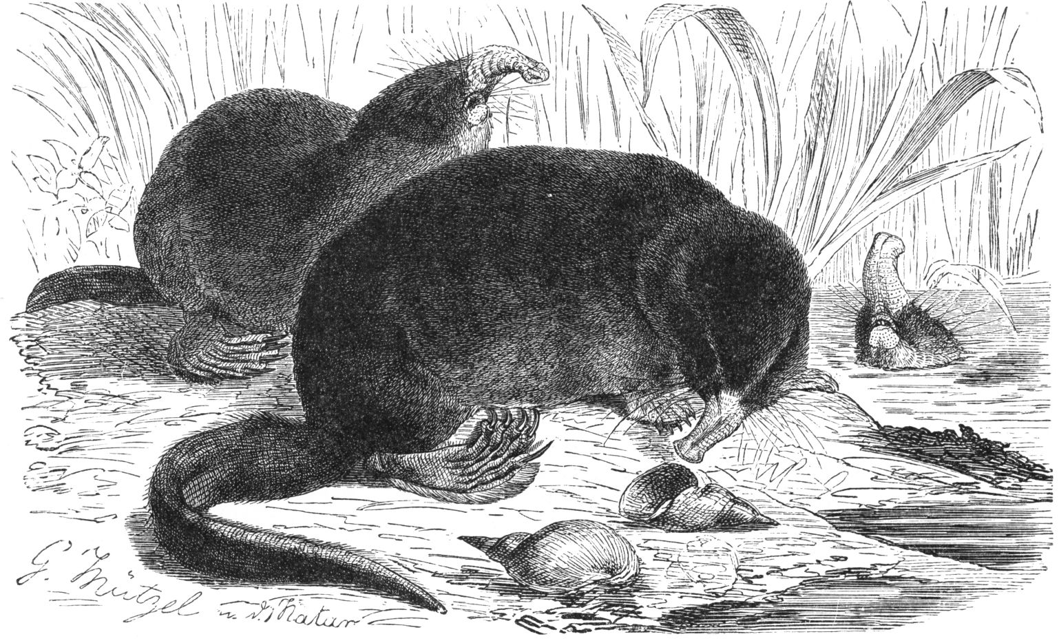 Original caption: "Desman, Myogale moschata Pall. 1/3 natürlicher Größe." Translation (partly): "Desman, Myogale moschata Pall. 1/3 natural size." Synonyms: Sorex moschatus Pall., Desmana moschata Guldenst., Mygale moschata Cuv. Size: 5.1 x 3.1 in² (13.0 x 7.9 cm²)